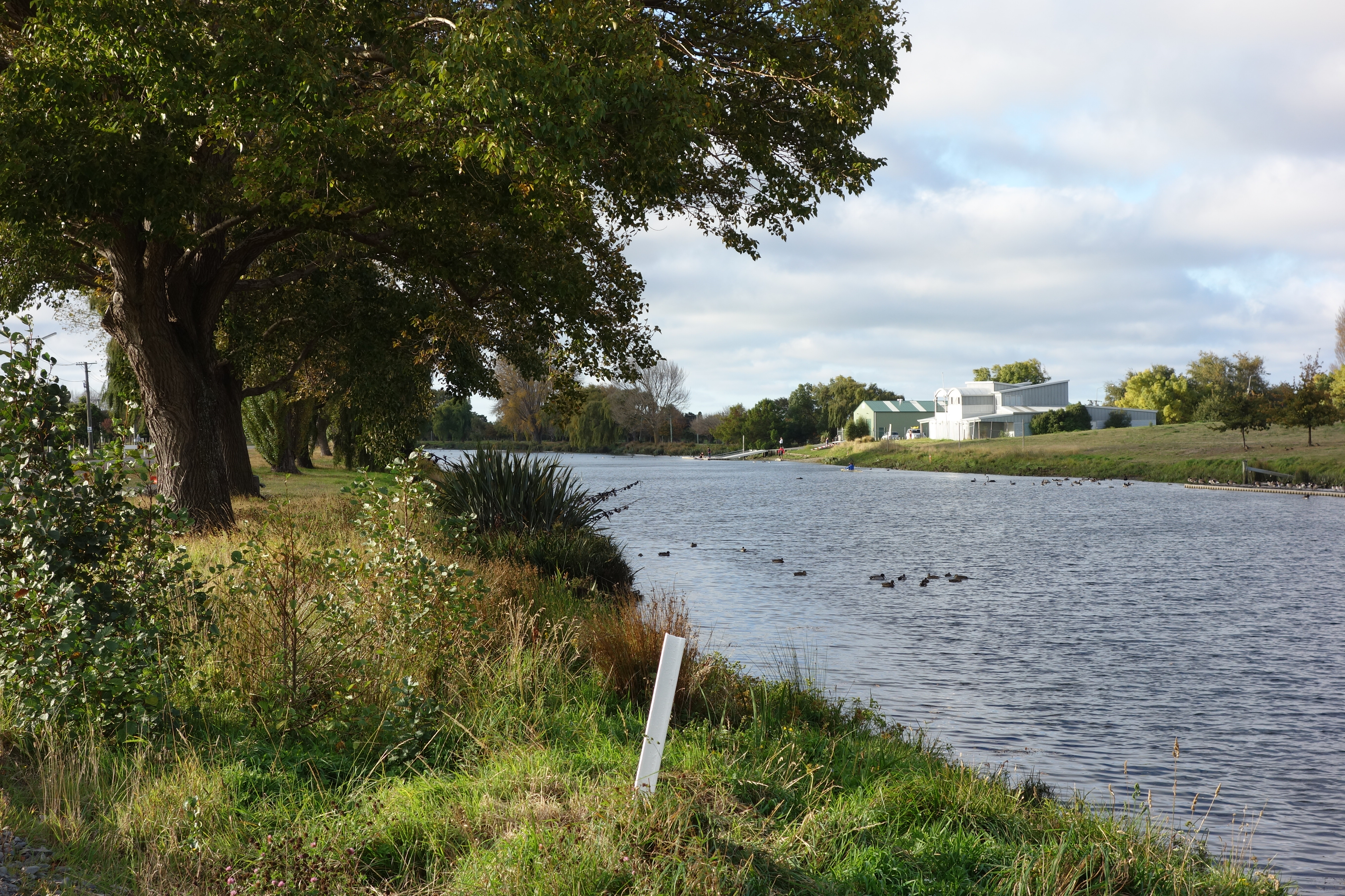 East Lake